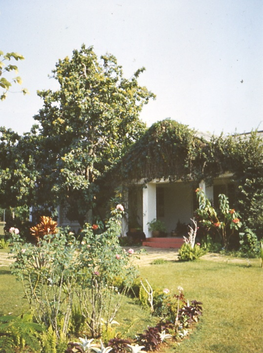 The house of Oswald Madecki in Abeokuta.